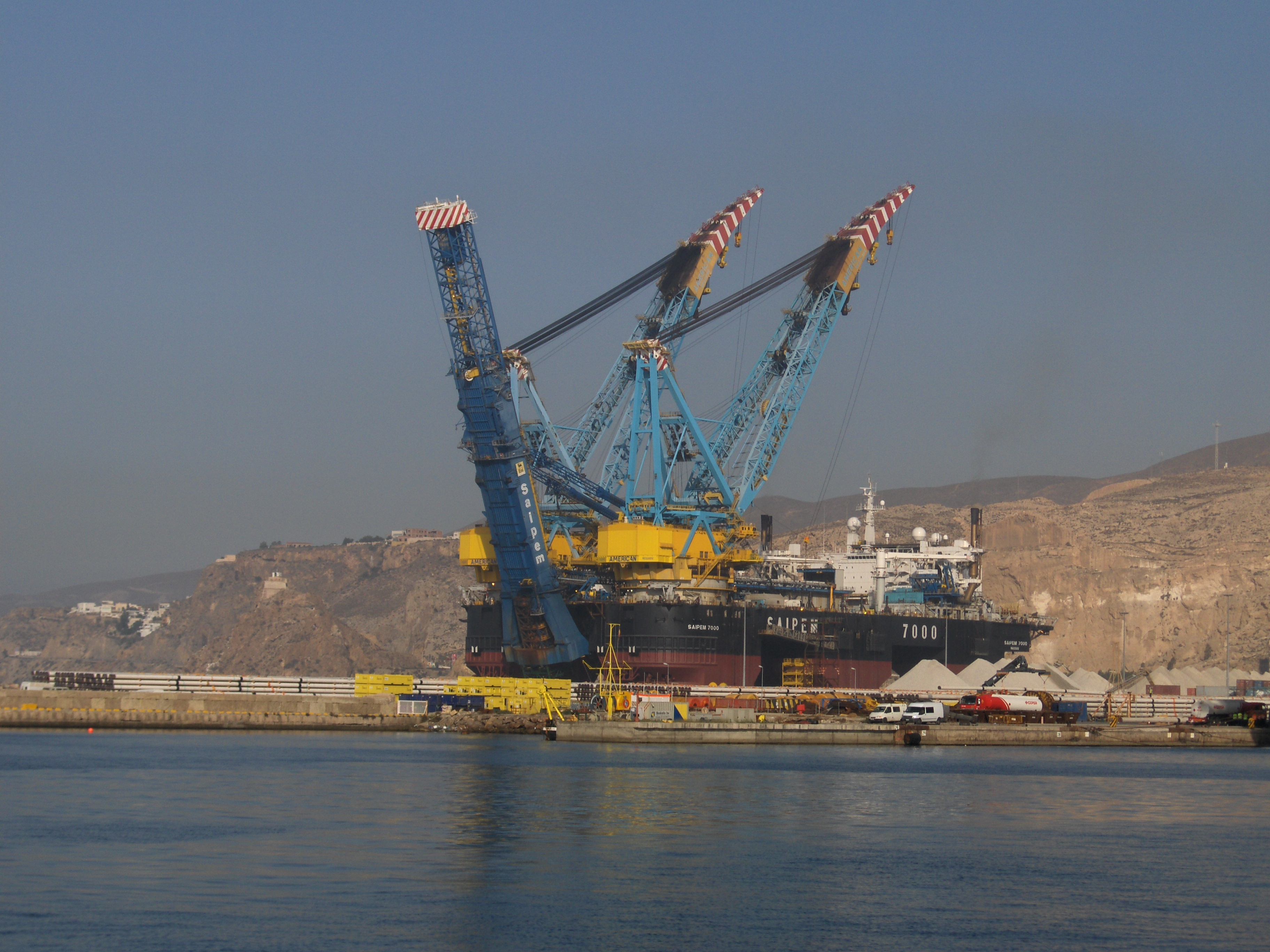 Saipem 7000 sea crane